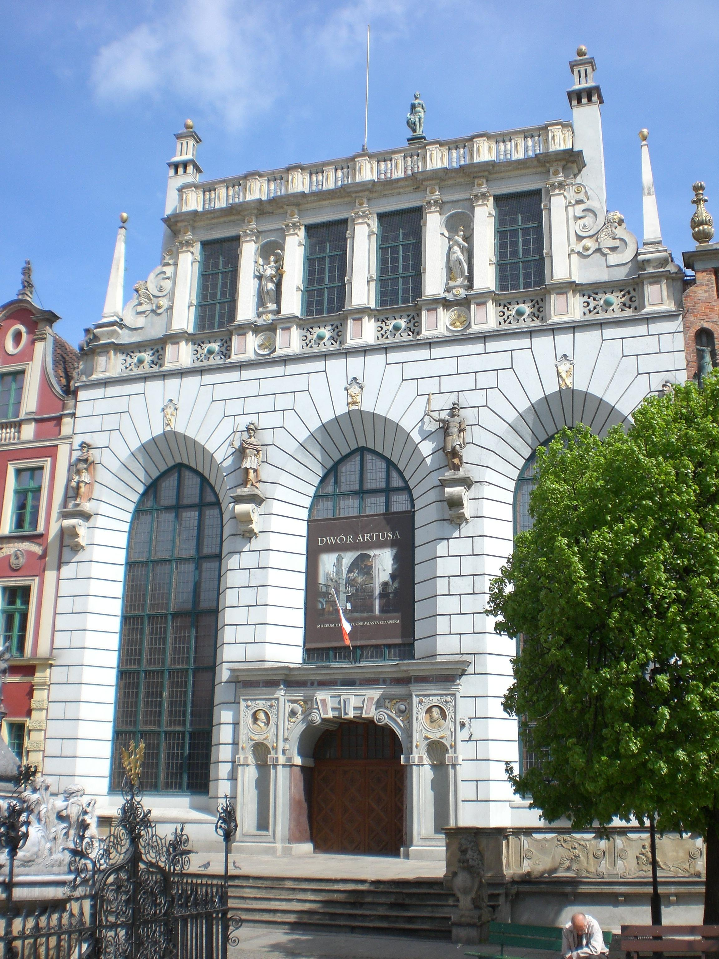 Artus Court in Gdańsk